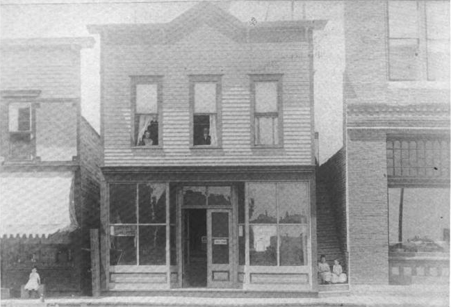 Baum's Bazaar, a novelty store, in Aberdeen, South Dakota. The store was opened on October 1, 1888 by L. Frank Baum.